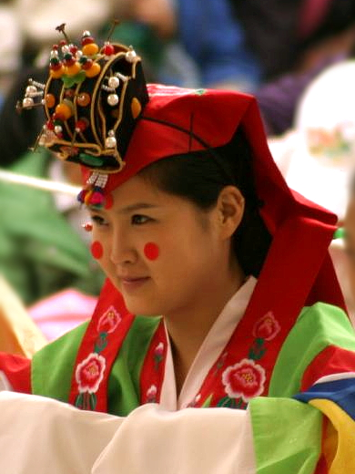 Hwagan, a Korean traditional headgear